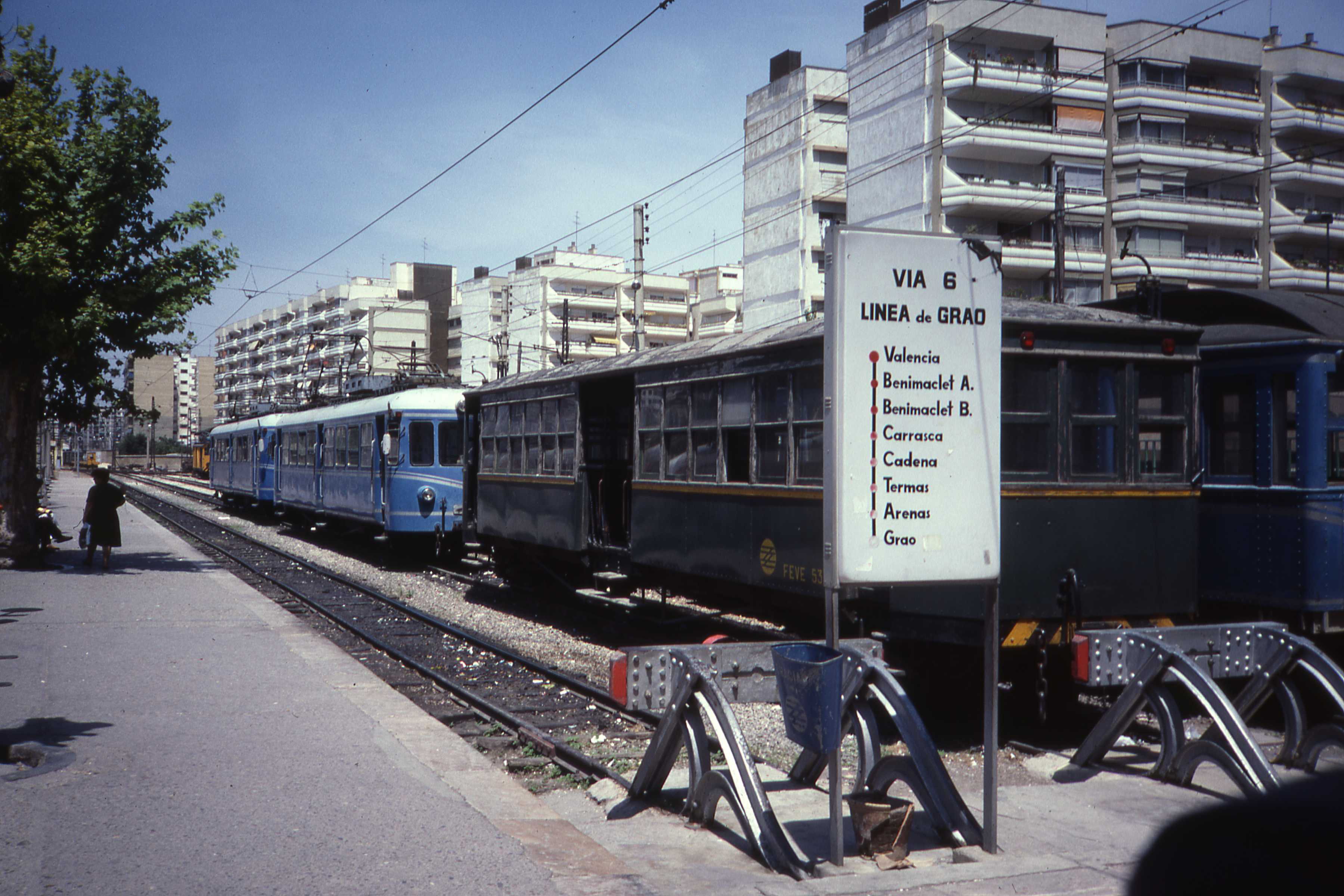 Line 6 for Grao in the regional "Pont de Fusta" railway station of Valencia in 1987